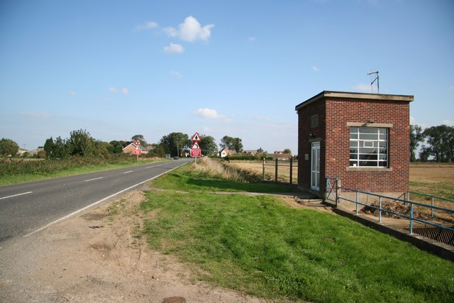 Twenty